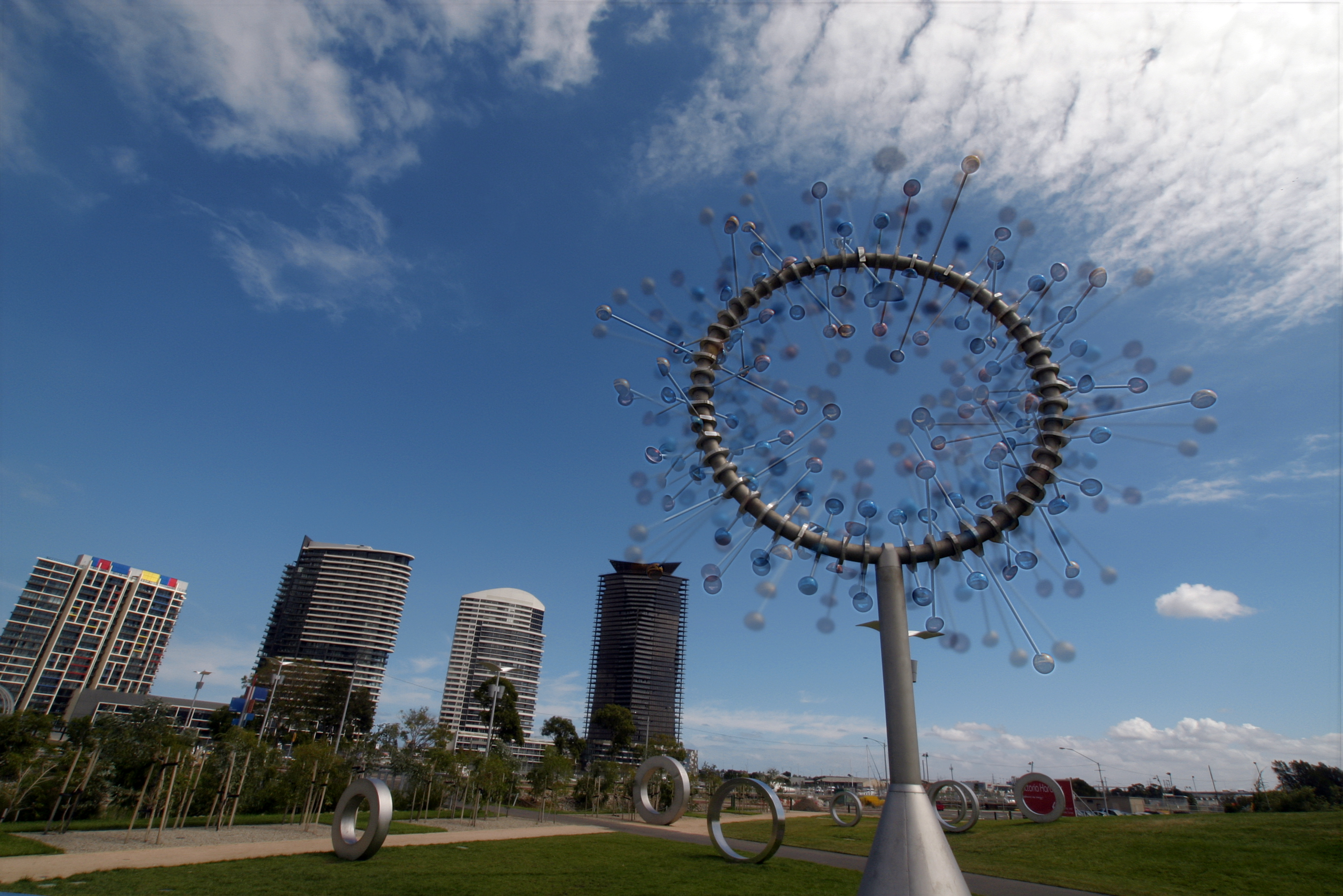 The Blowhole in motion.